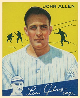 1934 Goudey baseball card of Johnny Allen of the New York Yankees #42. PD-not-renewed.